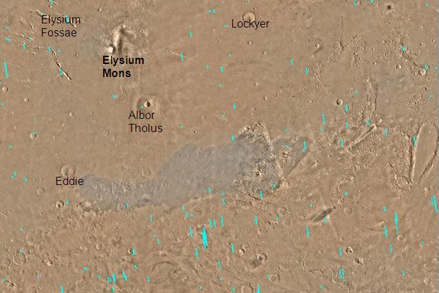 Map of Elysium quadrangle, Mars. The small, colored rectangles represent image footprints for the narrow angle camera on the Mars Global Surveyor. Some are about 1 mile wide, the otheers are about 2 miles wide. The map was made by the U.S. Geological survey for NASA.